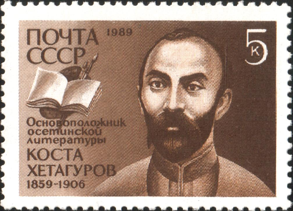 A USSR stamp ((1989, CPA 6112), Kosta Khetagurov, a national poet of the Ossetian people.